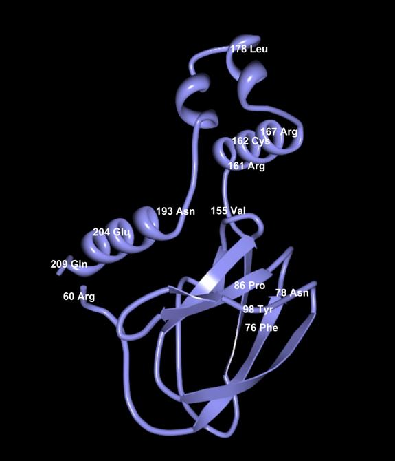 model of VHL protein with some amino acid residues (e. g. mutations hot spots) marked. Data from Min, JH, Yang, H, Ivan, M, Gertler, F, Kaelin Jr, WG, Pavletich, NP. Structure of an HIF-1alpha-pVHL complex: hydroxyproline recognition in signaling. Science. 296, 5574, 1886-1889. 2002. PMID 12004076. (PDBid=1LM8), made using MBT Protein Workshop.